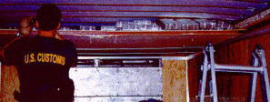 Drug Enforcement Administration Operation Reciprocity investigators found $5.6 million in street money hidden in this ceiling compartment of a truck during the El Paso seizure on April 9, 1997 (Text by DEA)